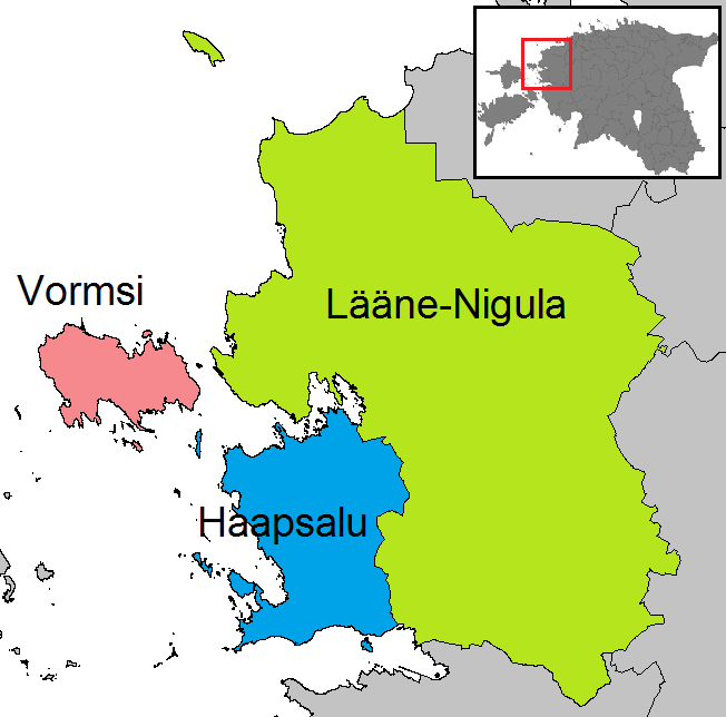 Map of the municipalities of Lääne County after the Administrative Reform of Estonia in 2017.